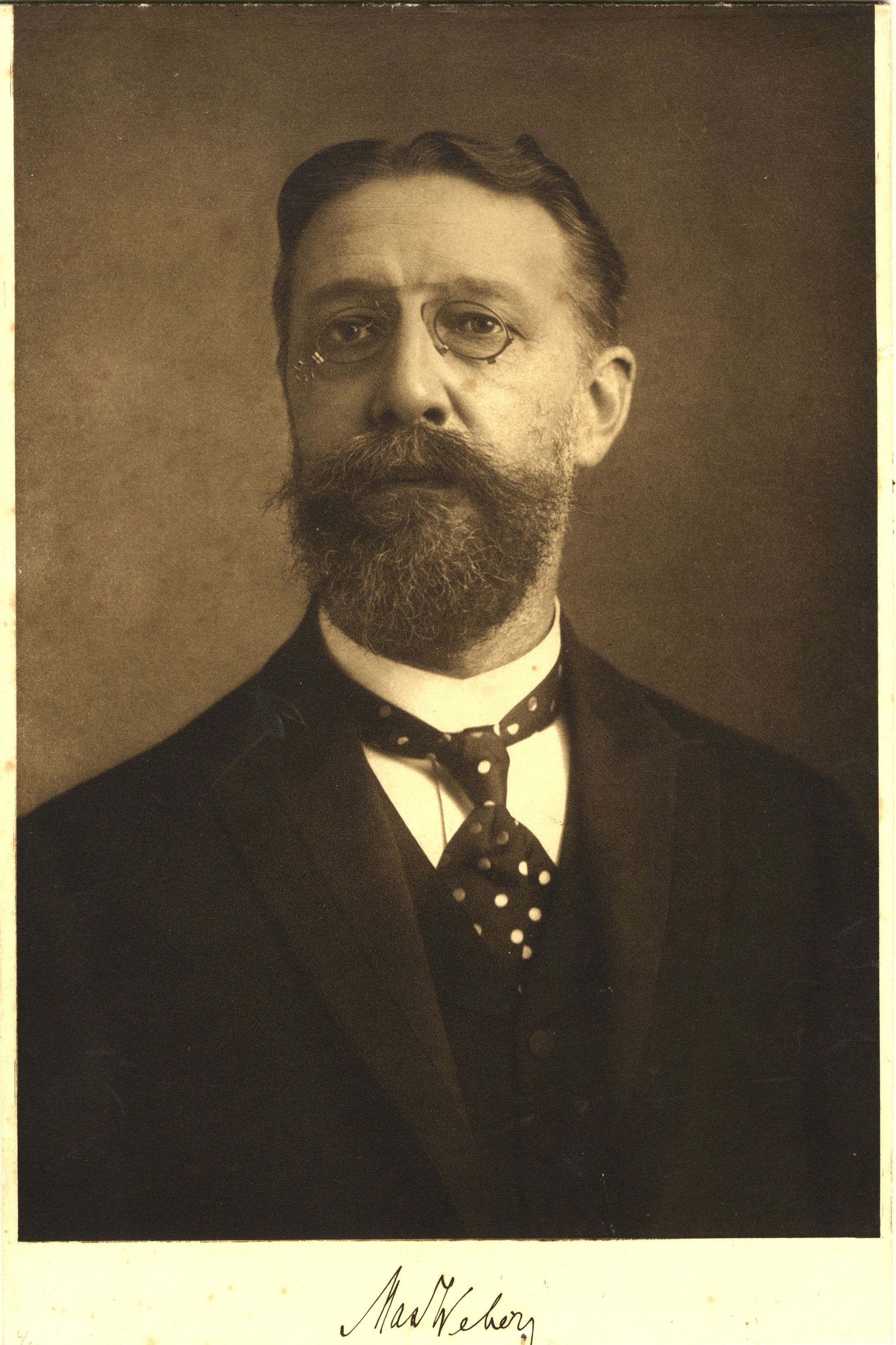 Photo portrait of Max Wilhelm Carl Weber